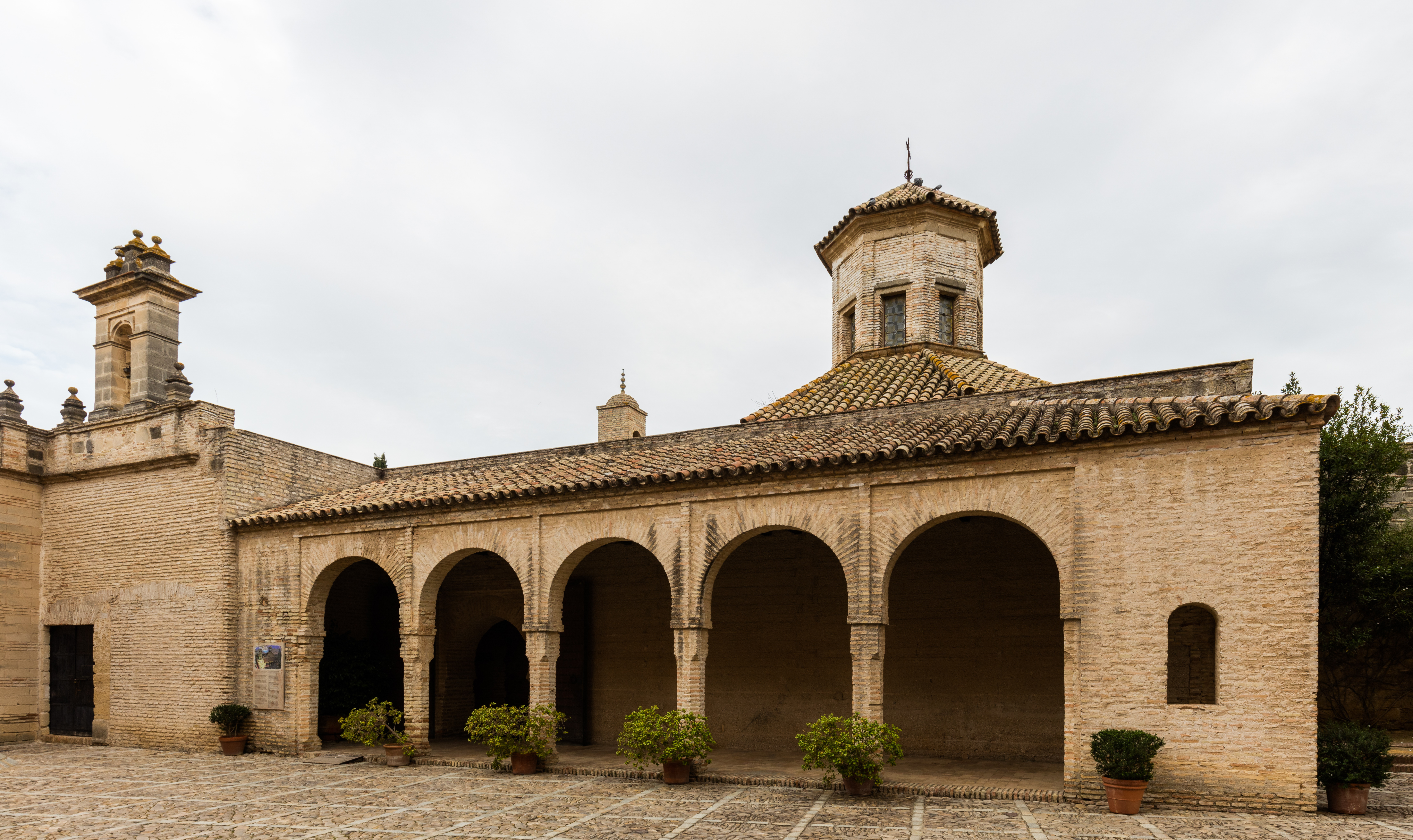 Alcázar, Jerez de la Frontera, Spain.